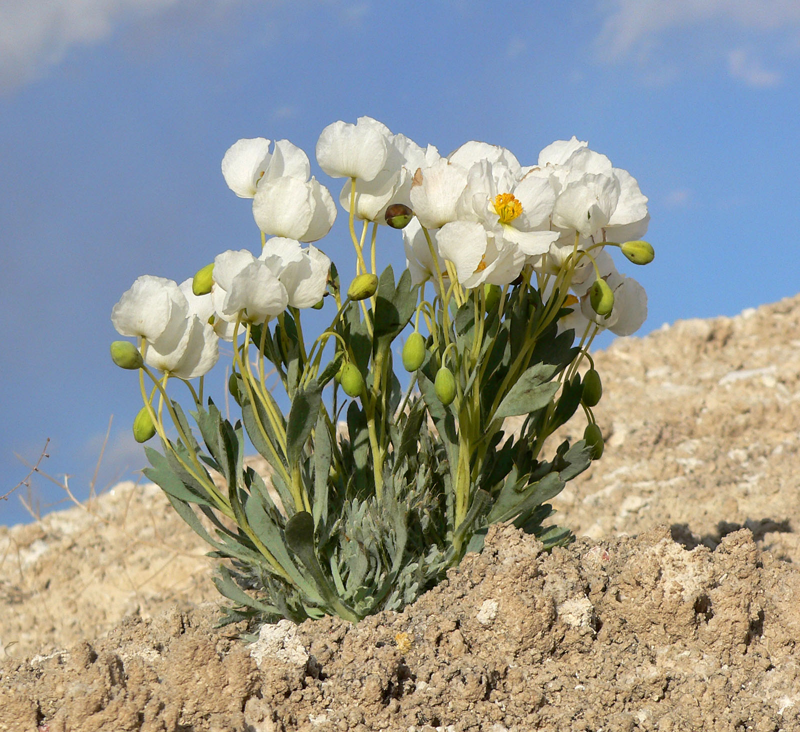 Arctomecon humilis of the White Dome population, in the White Dome area east of River Road near the Arizona border, southeast of St. George, Utah